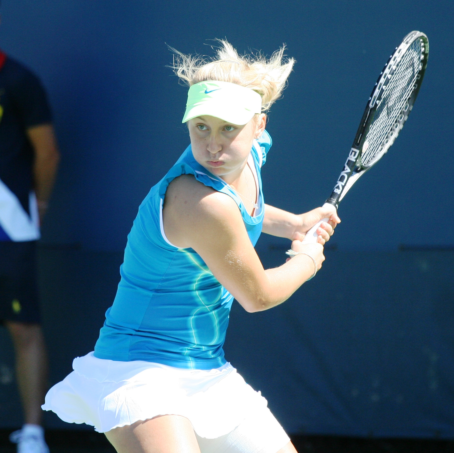 U.S. Open Juniors Sunday, Sept. 5, 2010